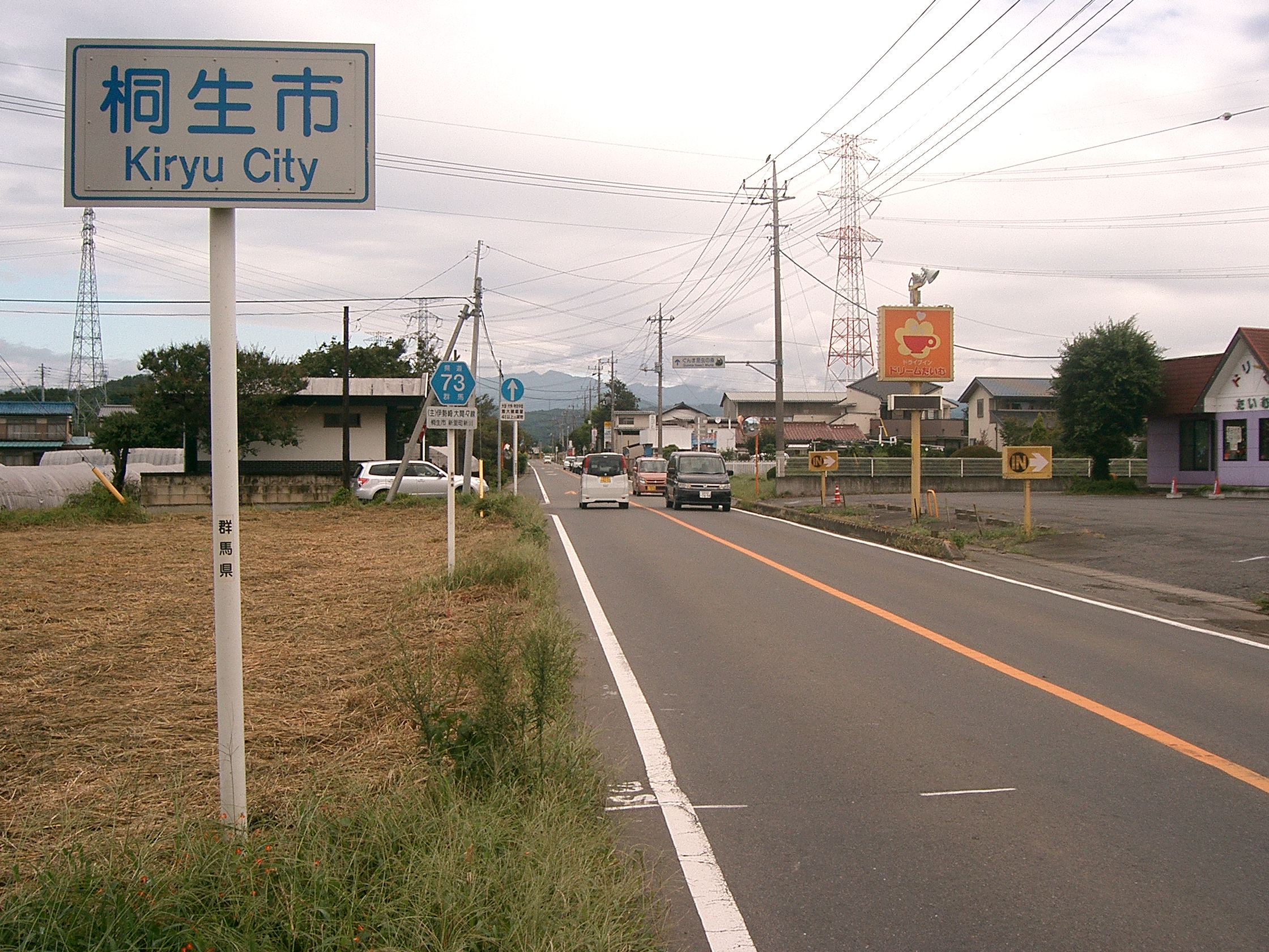 Gunma prefectural road 73 Isesaki-Omama line. Looking north from the boundary of Isesaki and Kiryu.